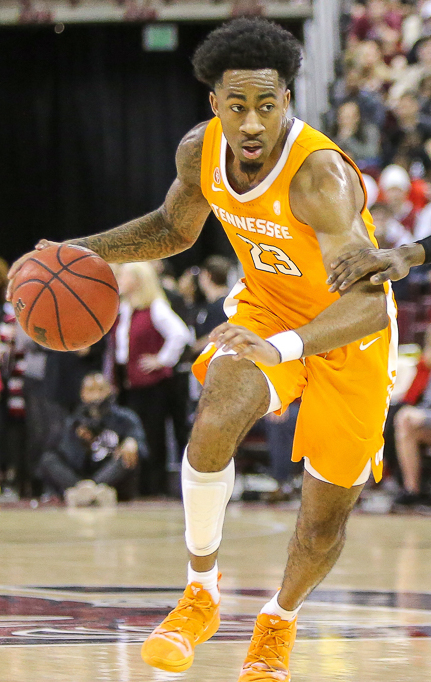 Photo by Chris Gillespie